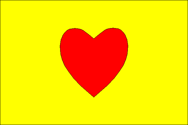 Flag of the Municipality of Útvina